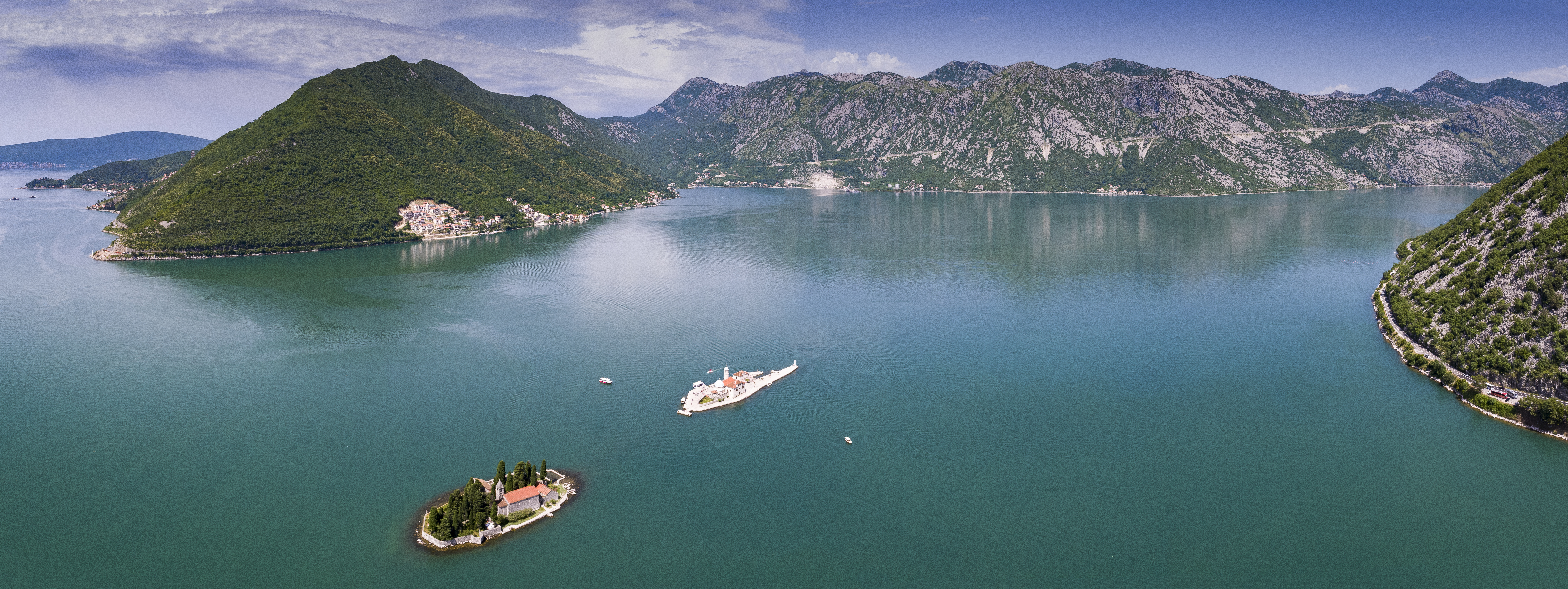 aerial panorama perast montenegro alps